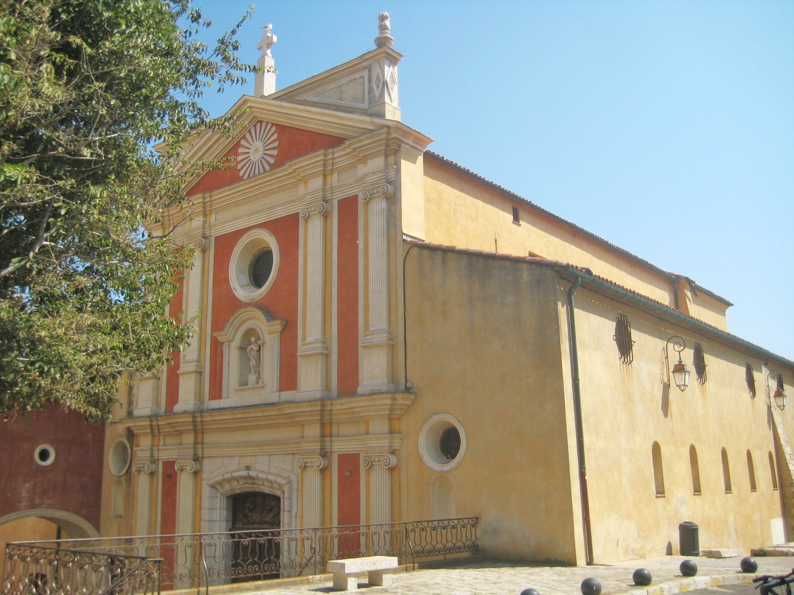 Description Cathédrale Notre-Dame-de-la-Platea Antibes Date22 October 2011Sourcemon appareil photoAuthorAimelaimePermission (Reusing this file) Cathédrale Notre-Dame-de-la-Platea Antibes